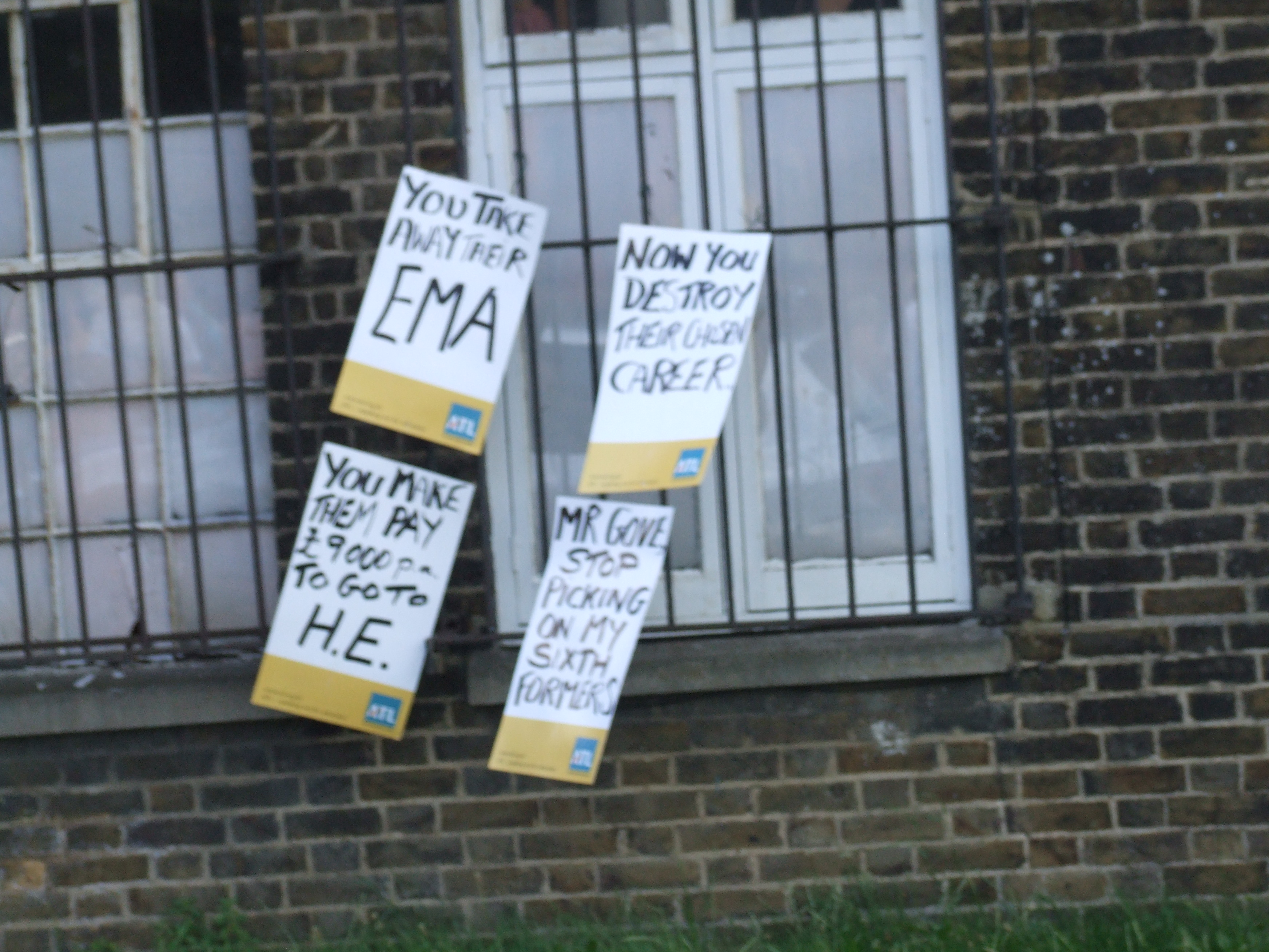 2011 United Kingdom anti-austerity protests. Nine rallies were held in Kent, this is the one at the Command House in Chatham. ATL posters despairing at the way, sixth formers have lost their EMA, free education and careers. Gove is picking on sixth formers